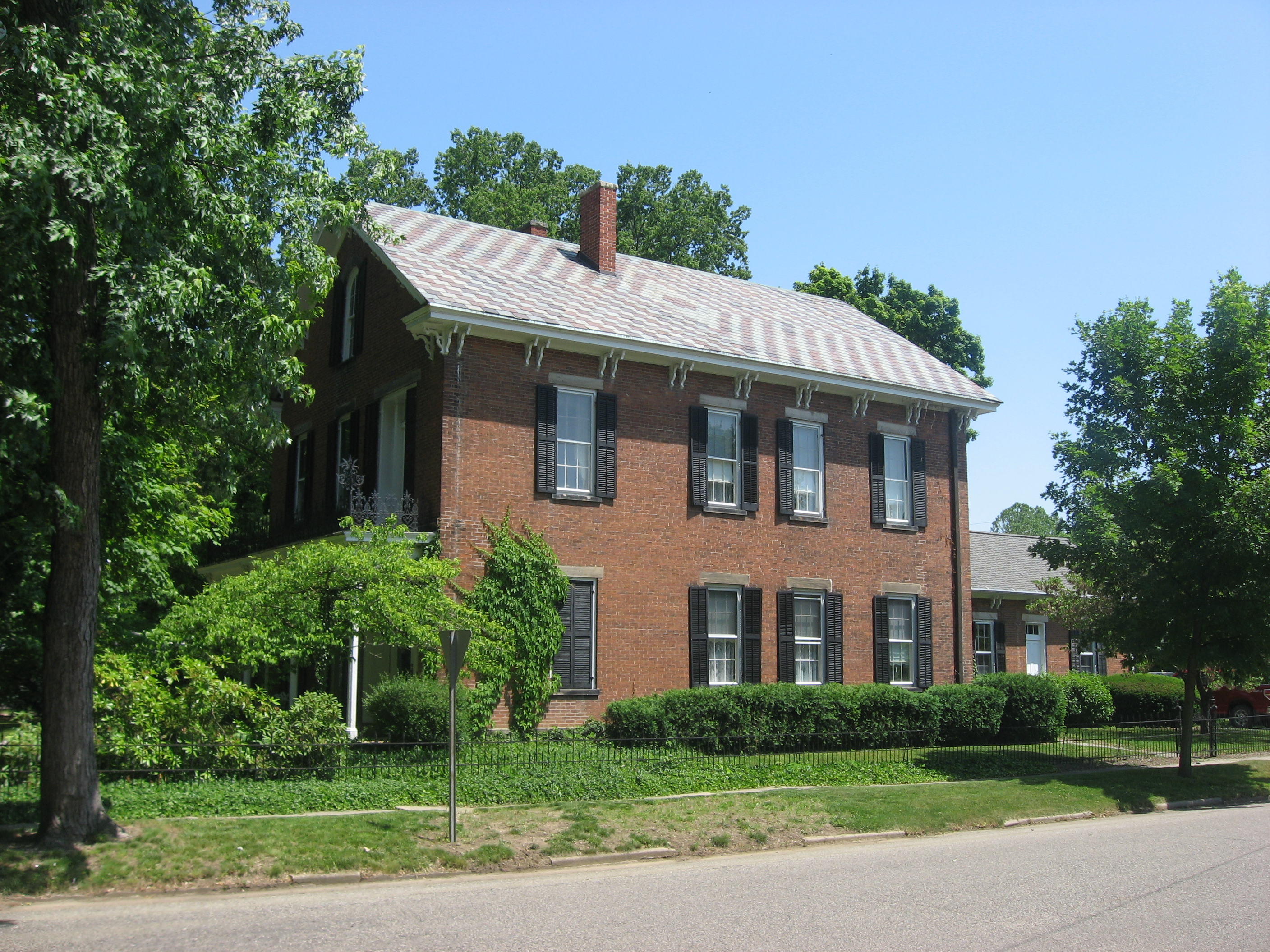 Western side and front of the William C.B. Sewell House, located at 602 E. Washington Street in Covington, Indiana, United States. Built in 1867, it is listed on the National Register of Historic Places.